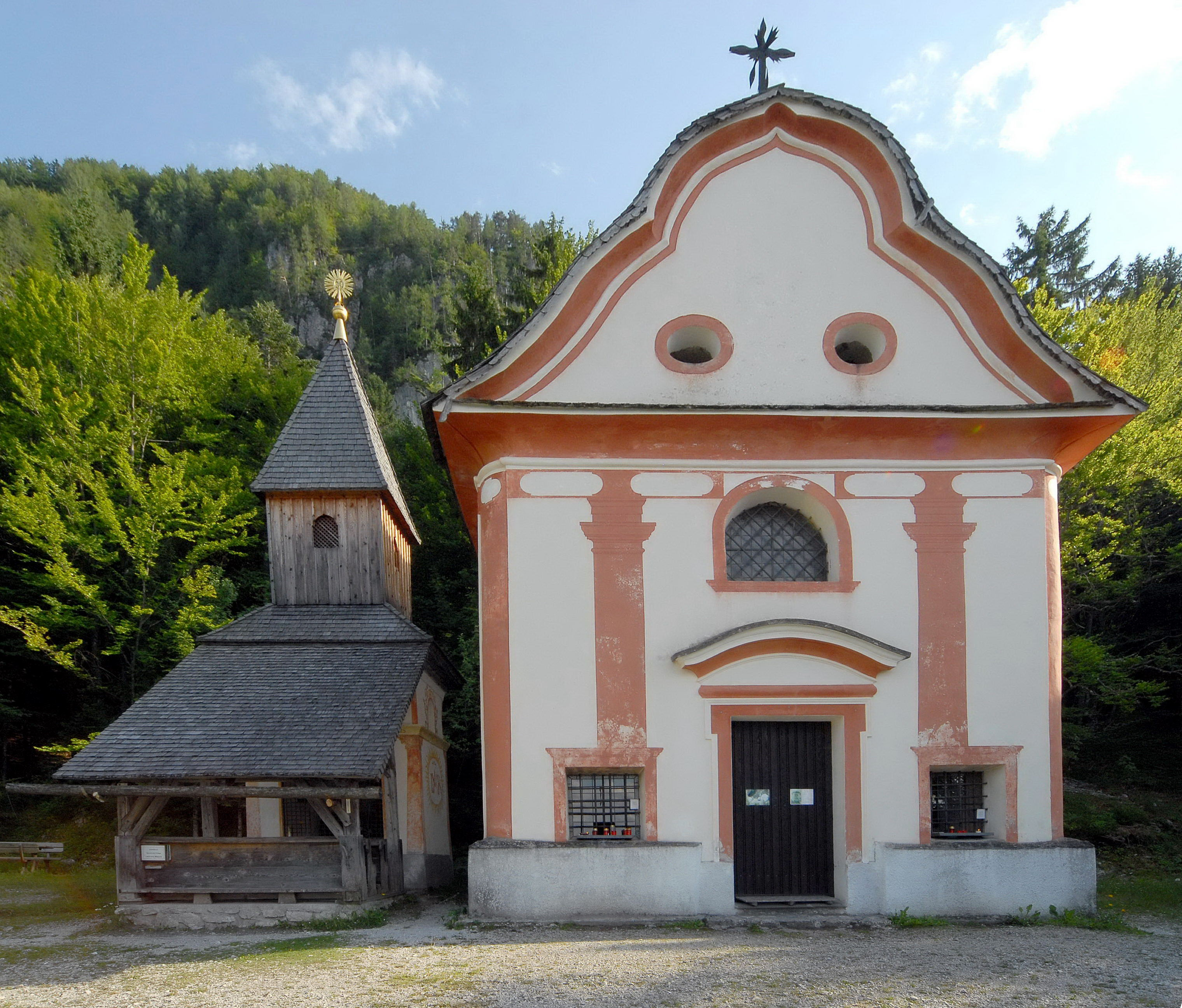 Chapels at the "chapel mountain" in Maria Elend, municipality Sankt Jakob im Rosental, district Villach Land, Carinthia, Austria, EU